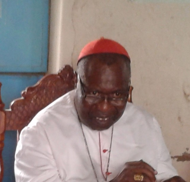 Gabriel Card Zubeir Wako, Archbishop Emeritus of Khartoum